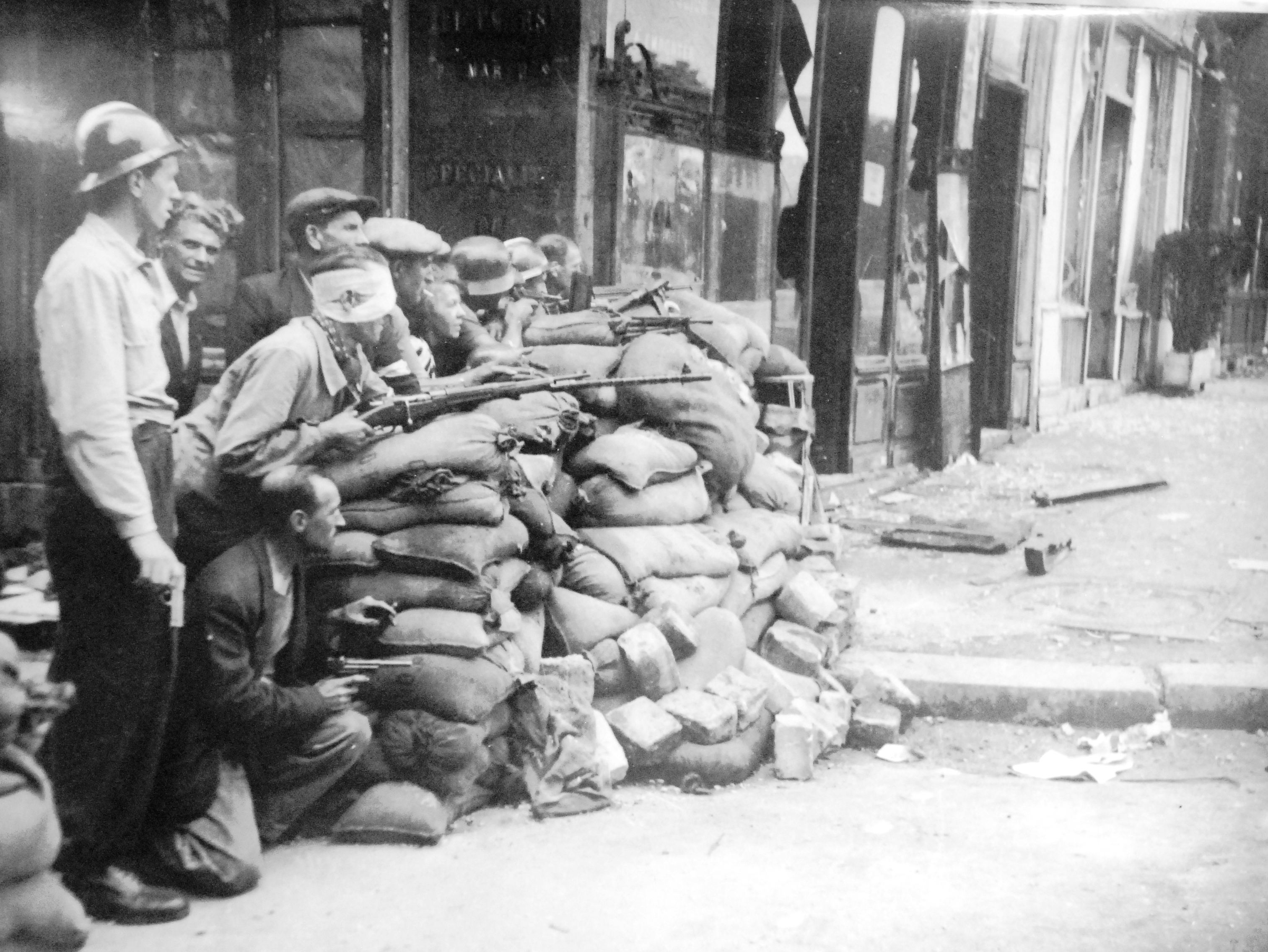 Lot 4568-4: Liberation of Paris, France, August 25, 1944. Parisian Men fighting during the liberation. Photographed through Mylar sleeve. (7/10/2015).